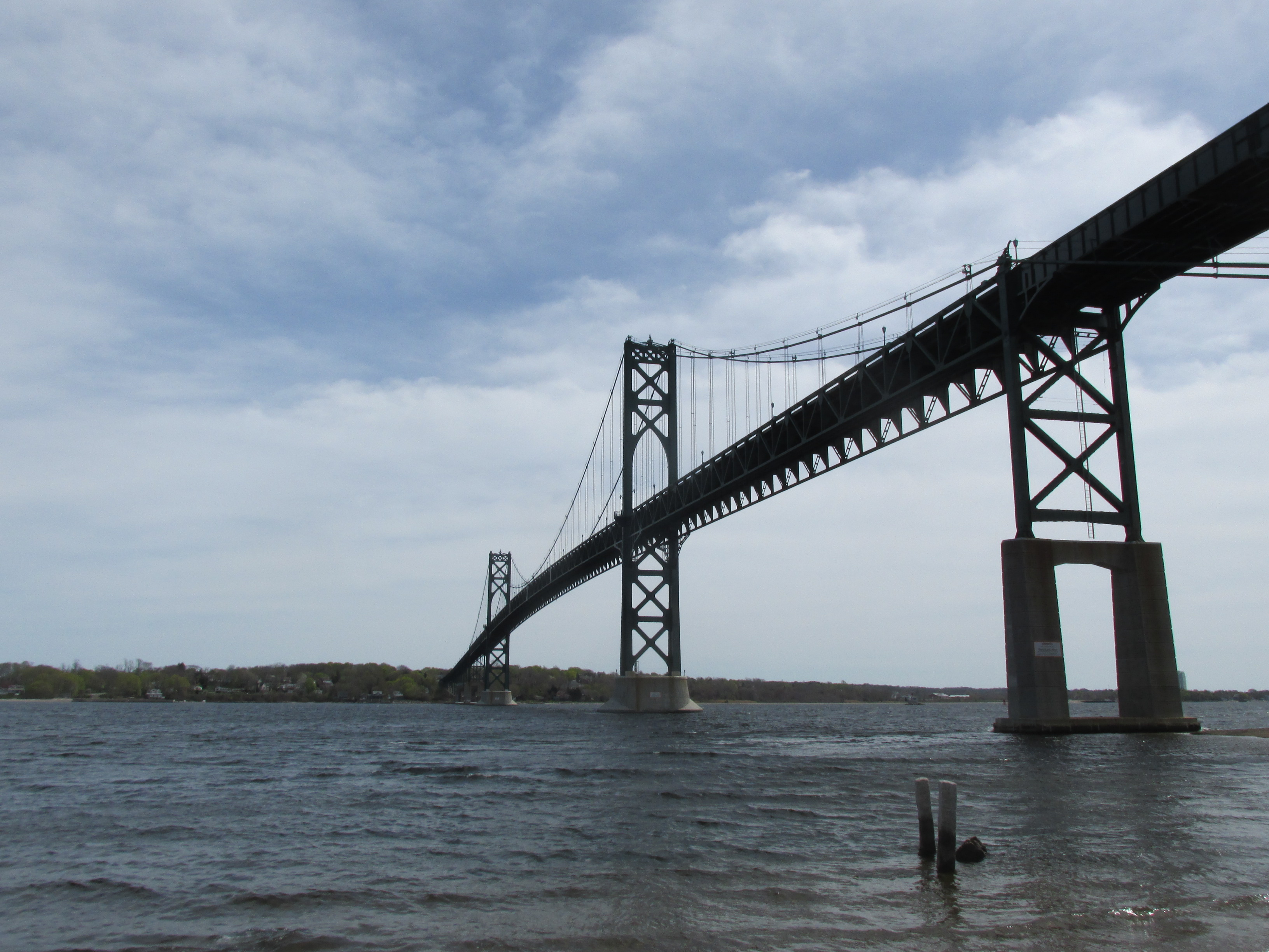 Mount Hope Bridge, Bristol Rhode Island